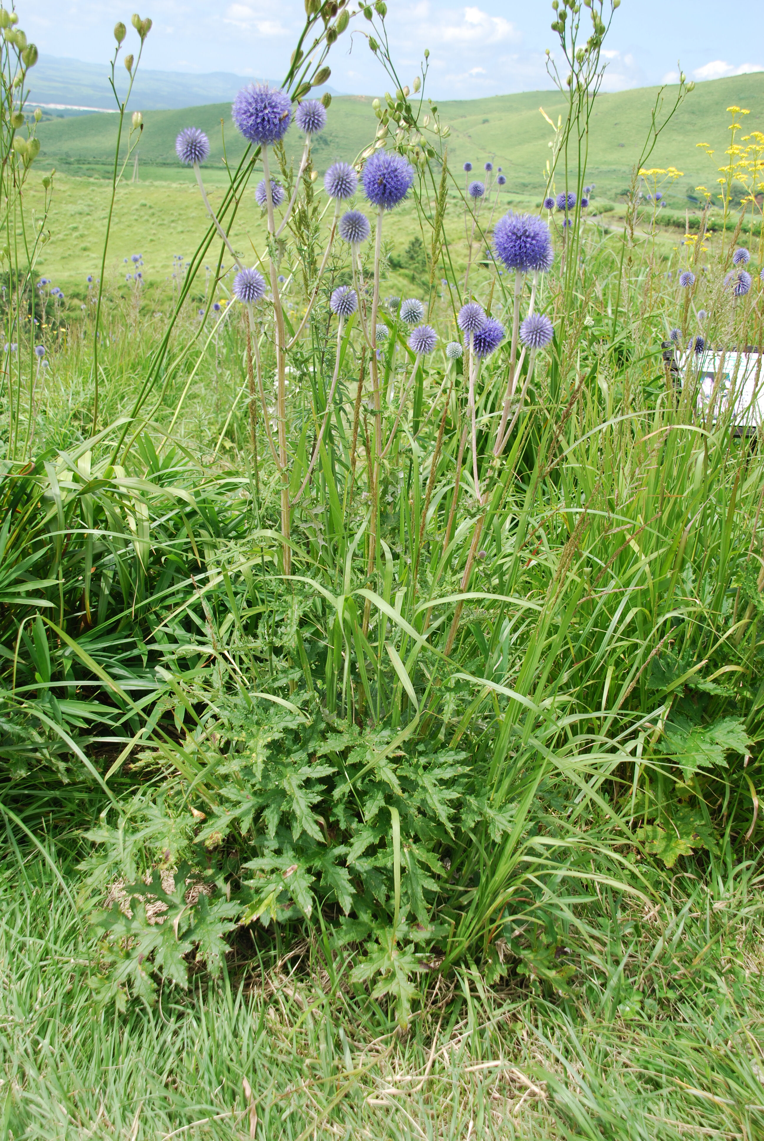 Echinops setifer Higotai-park at kujuu Mt in kyuuyu japan.Full Version.